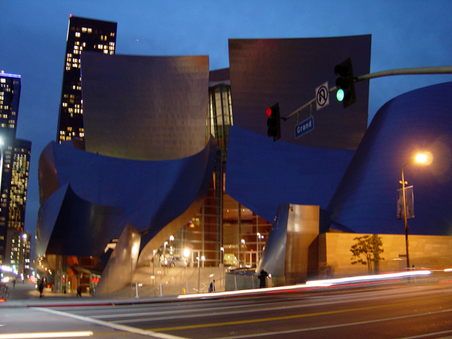 Main entrance of the Walt Disney Concert Hall in Los Angeles. Photo taken by Bobak Ha'Eri. December 22, 2004. Please observe license and properly cite in use outside Wikipedia.